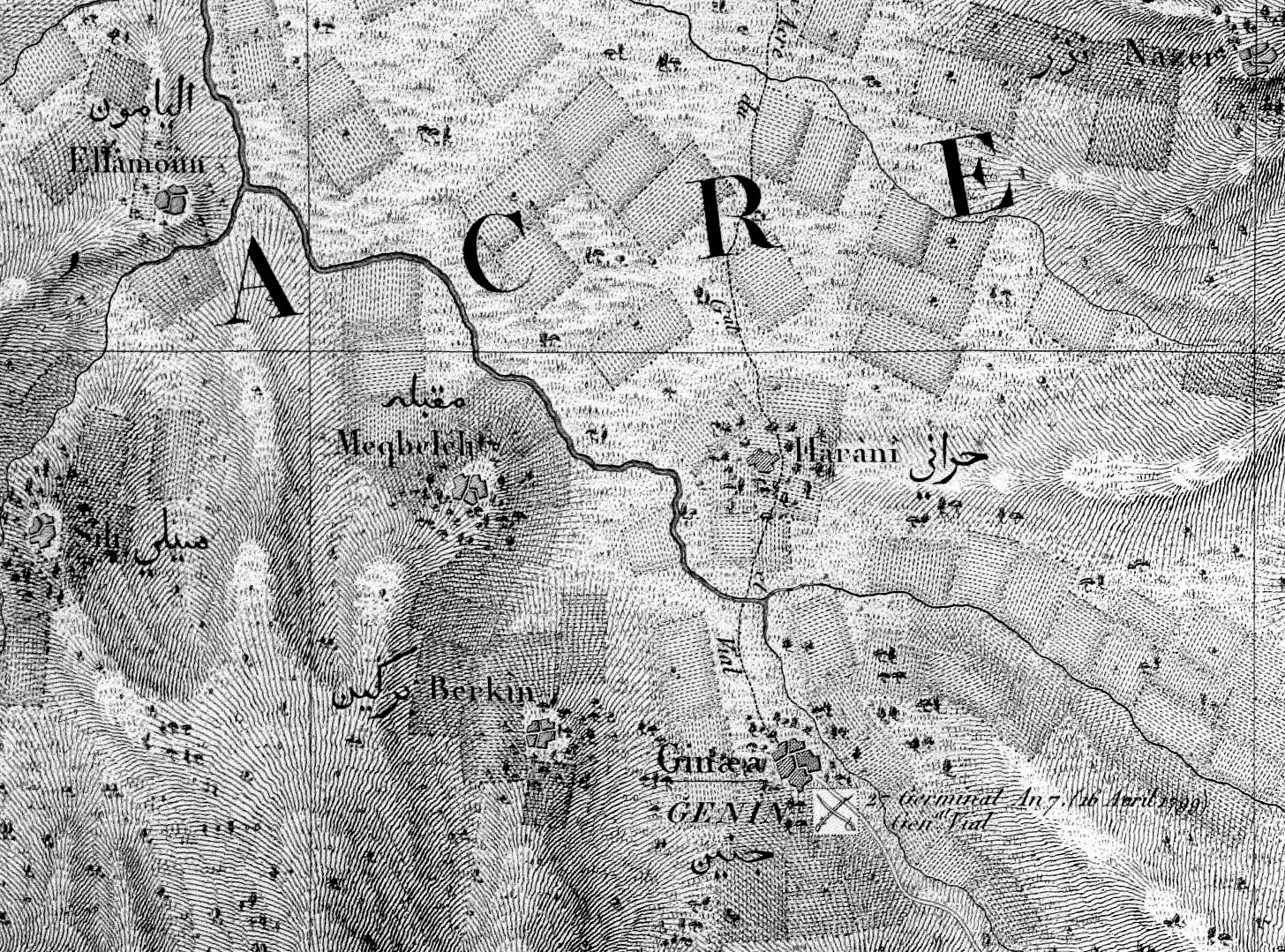 Portion of map of Pierre Jacotin of northern Palestine, prepared during French military expedition of 1799 and published in 1826. Full name: Carte topographique de l'Egypte et de plusieurs parties des pays limitrophes ... .